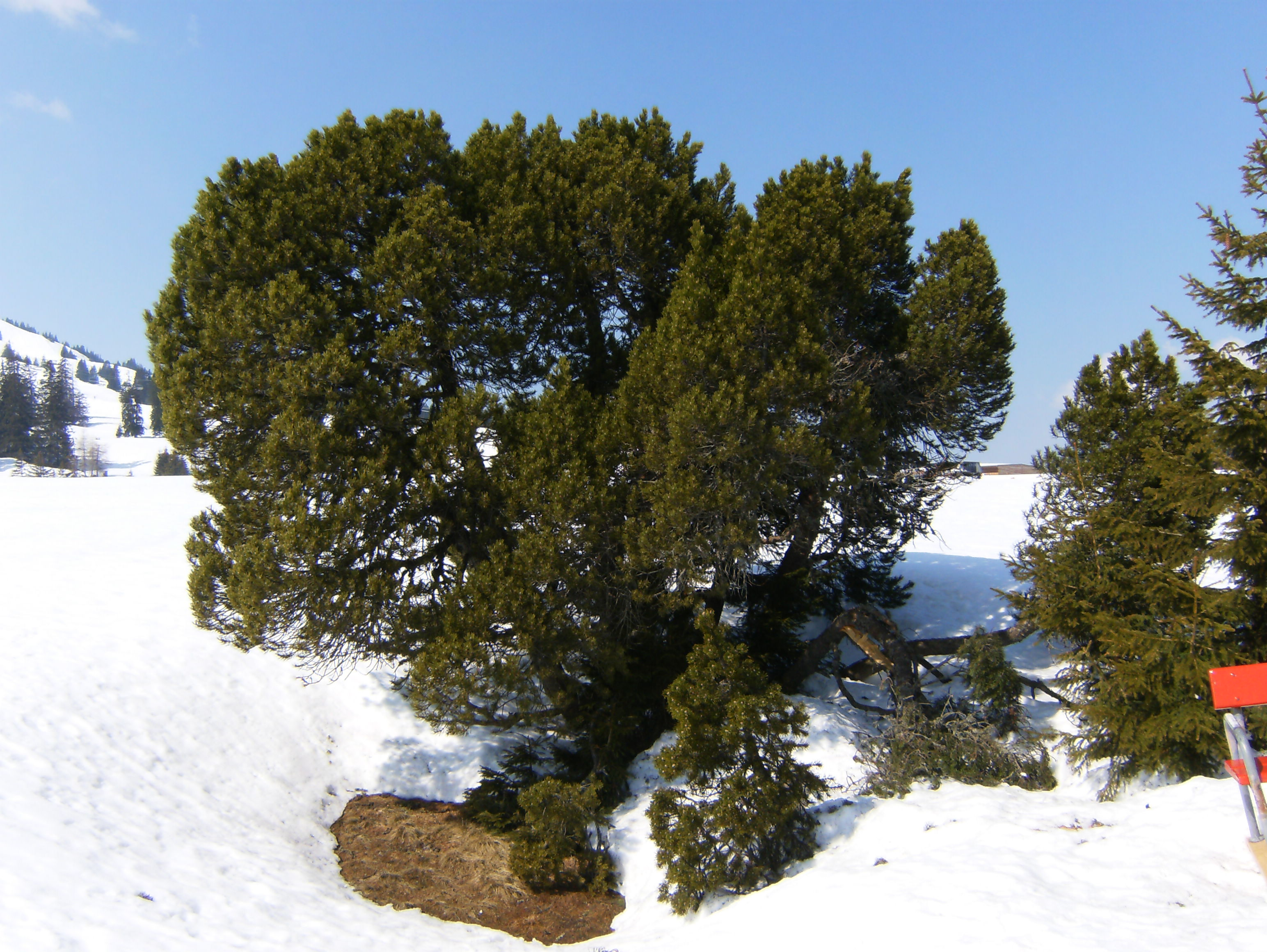 Pinus mugo nothosubsp. rotundata, Prodalp, Flumserberg SG, Switzerland